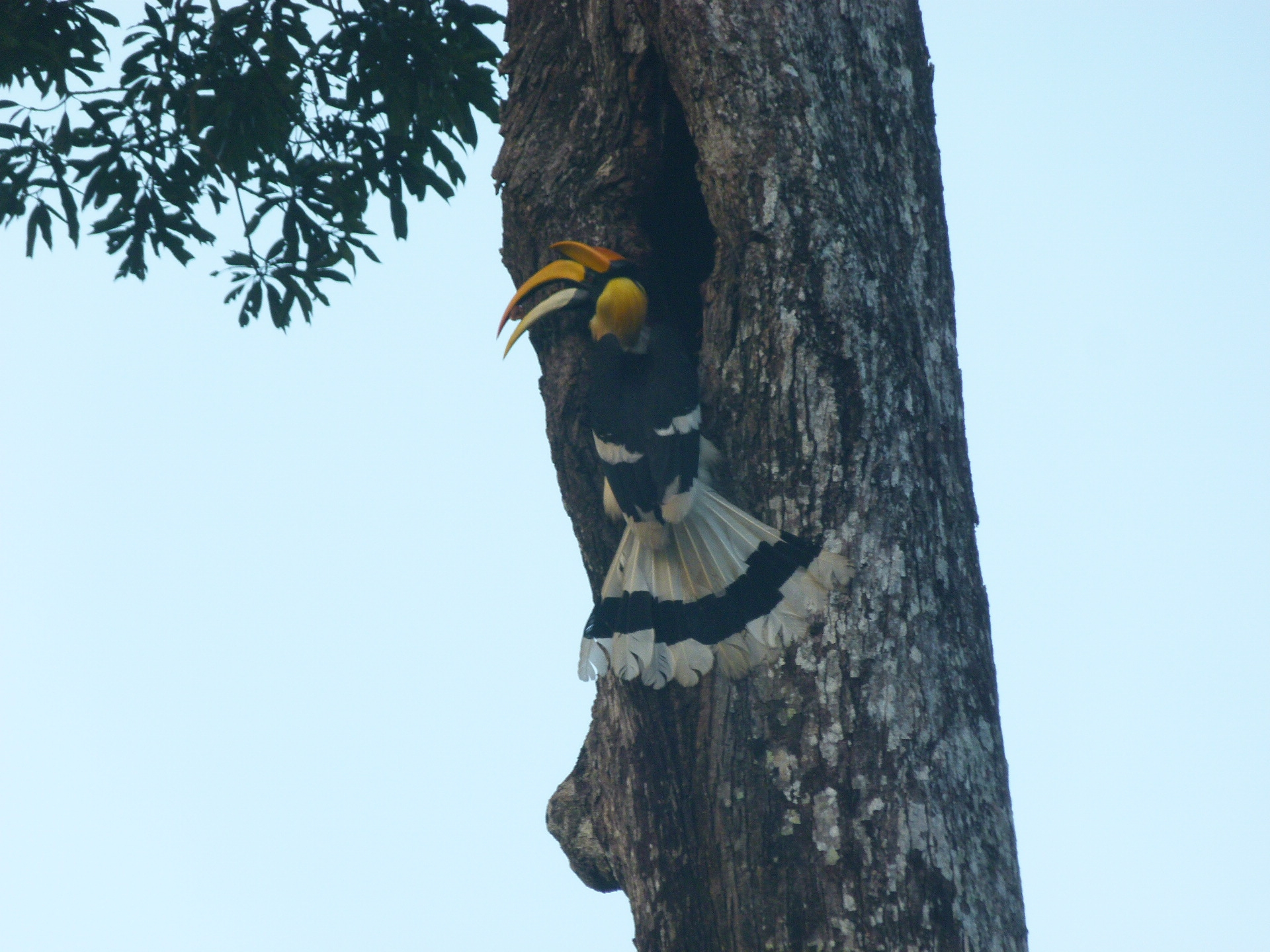 Male Great hornbill feeding female at nest. Varatu parai, Anamalais, India